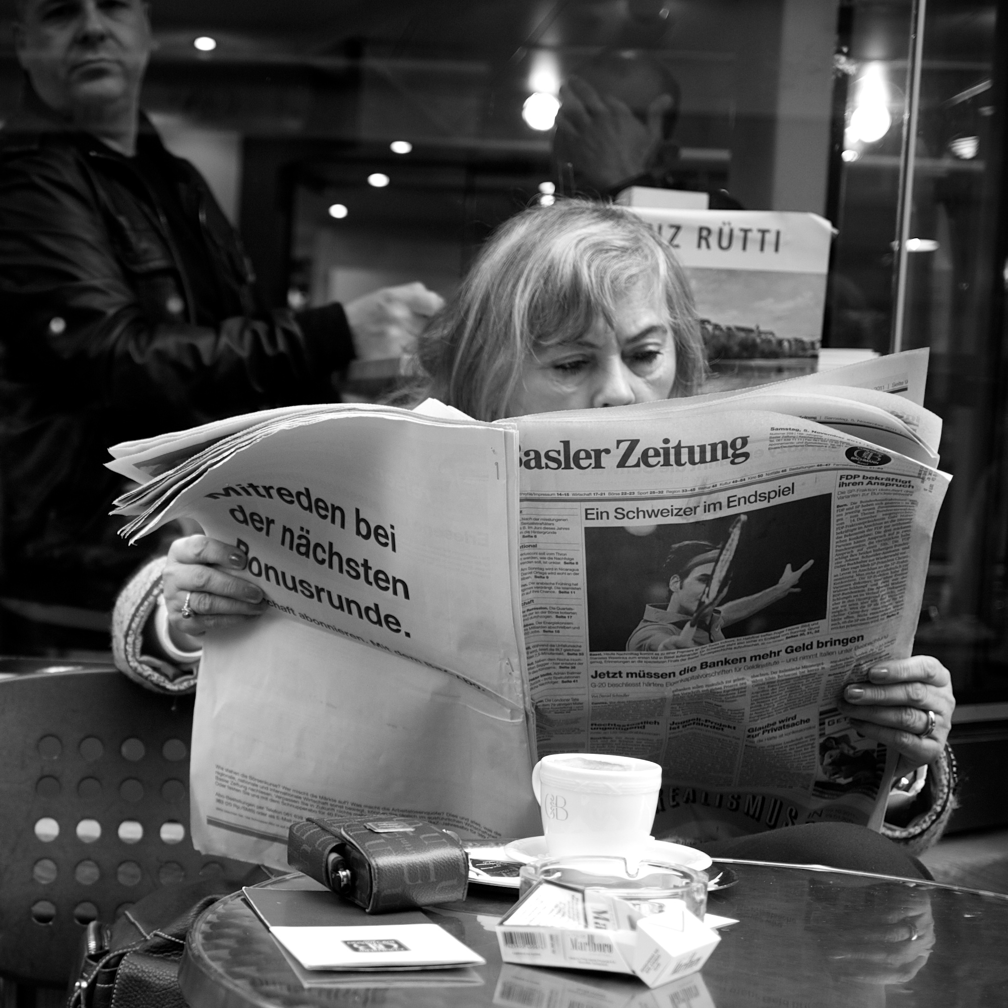 Street photography, Basel 2011 (cropped).